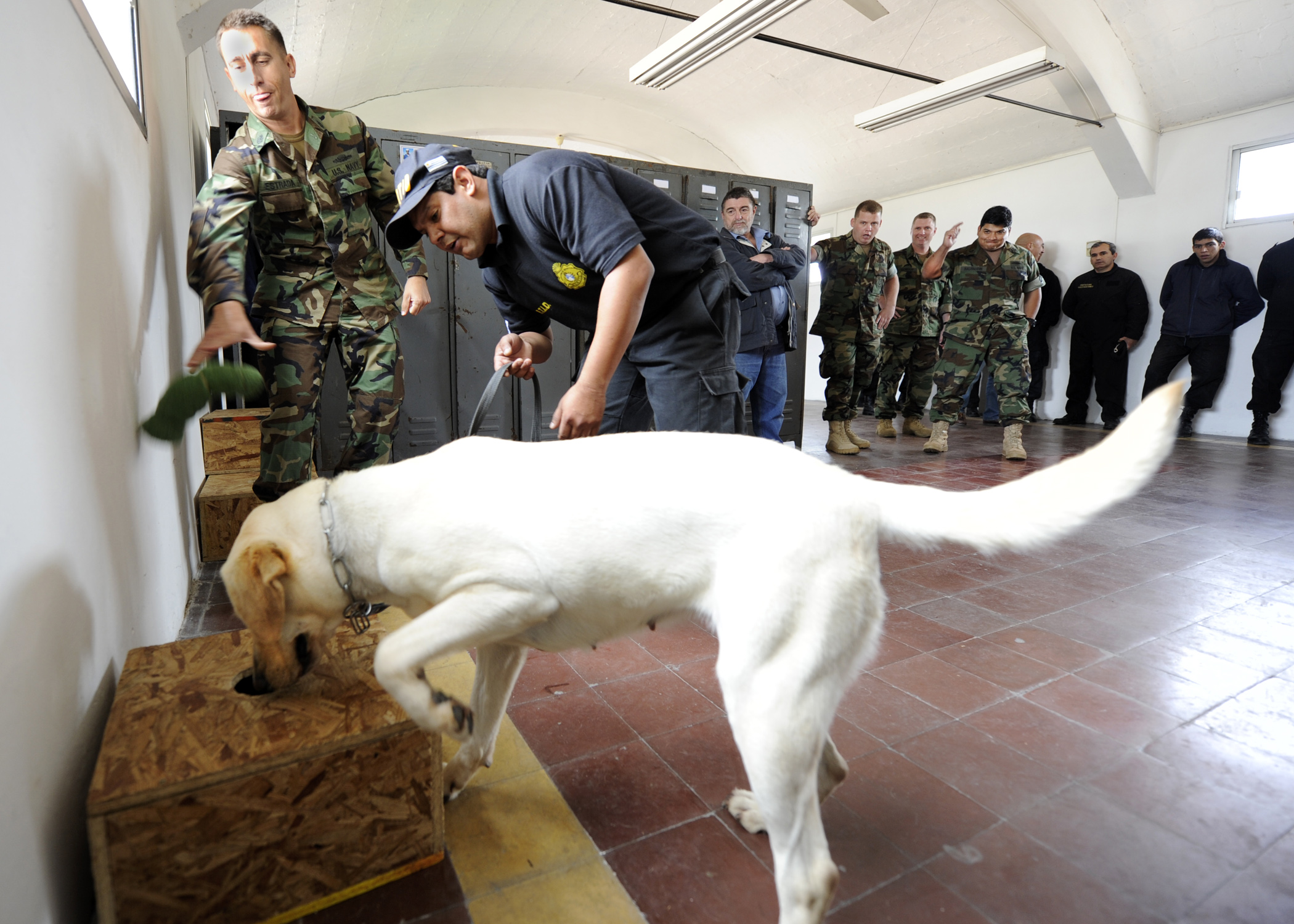 MONTEVIDEO, Uruguay (Nov. 9, 2010) Chief Master-at-Arms Nick Estrada, left, a U.S. Navy military working dog handler from Orange, Calif., rewards a Uruguayan police narcotics sniffing dog after correctly tracking simulated narcotics during a three-week training course coordinated by the Maritime Civil Affairs and Security Training Command (MCAST). MCAST delivers teams of highly skilled Sailors to share expertise with partner nations to strengthen international relationships. (U.S. Navy photo by Mass Communication Specialist 1st Class Peter D. Lawlor/Released)